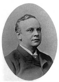 Picture of Arthur Soden